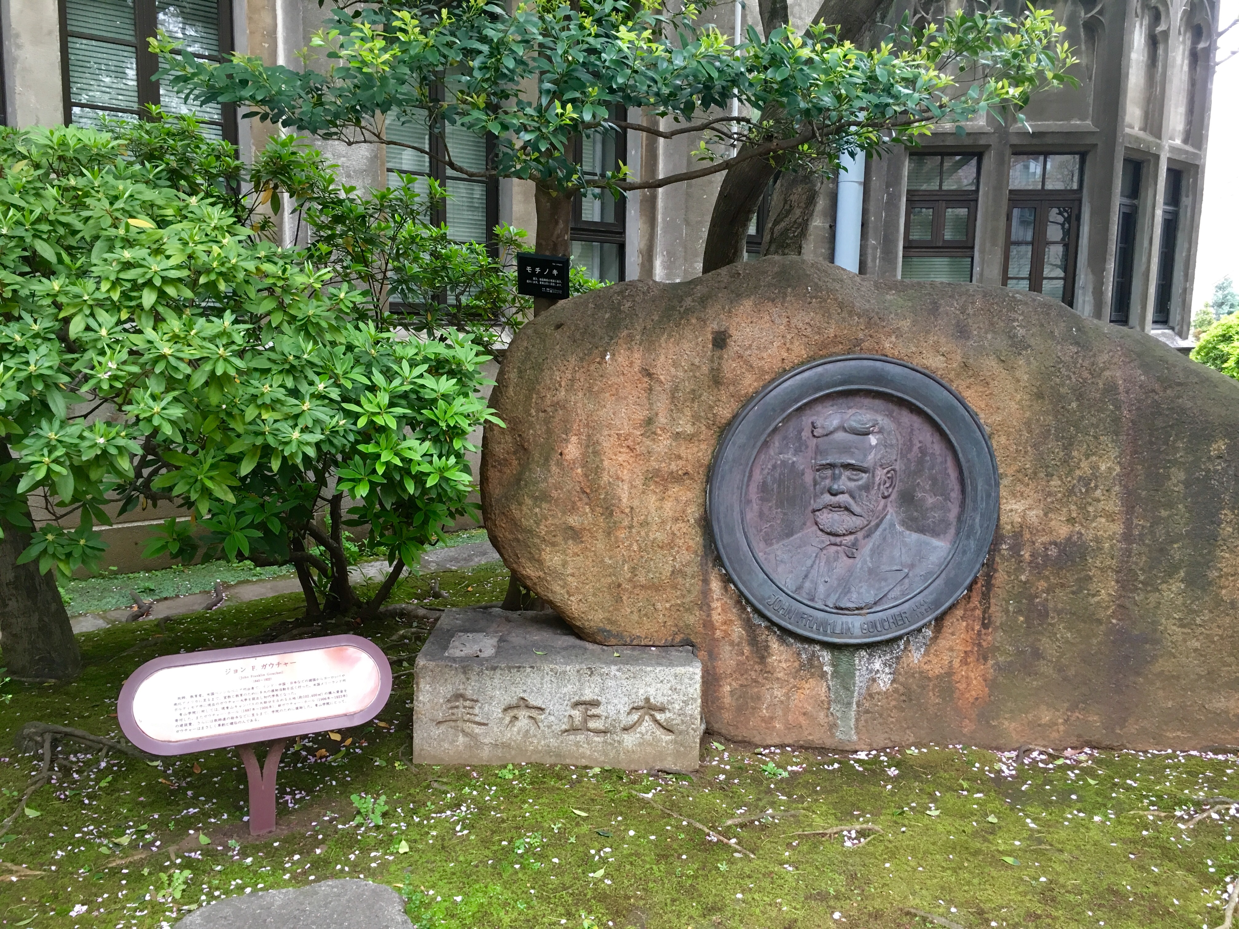 This is the monument of John Franklin Goucher, located in the campus of Aoyama Gakuin .